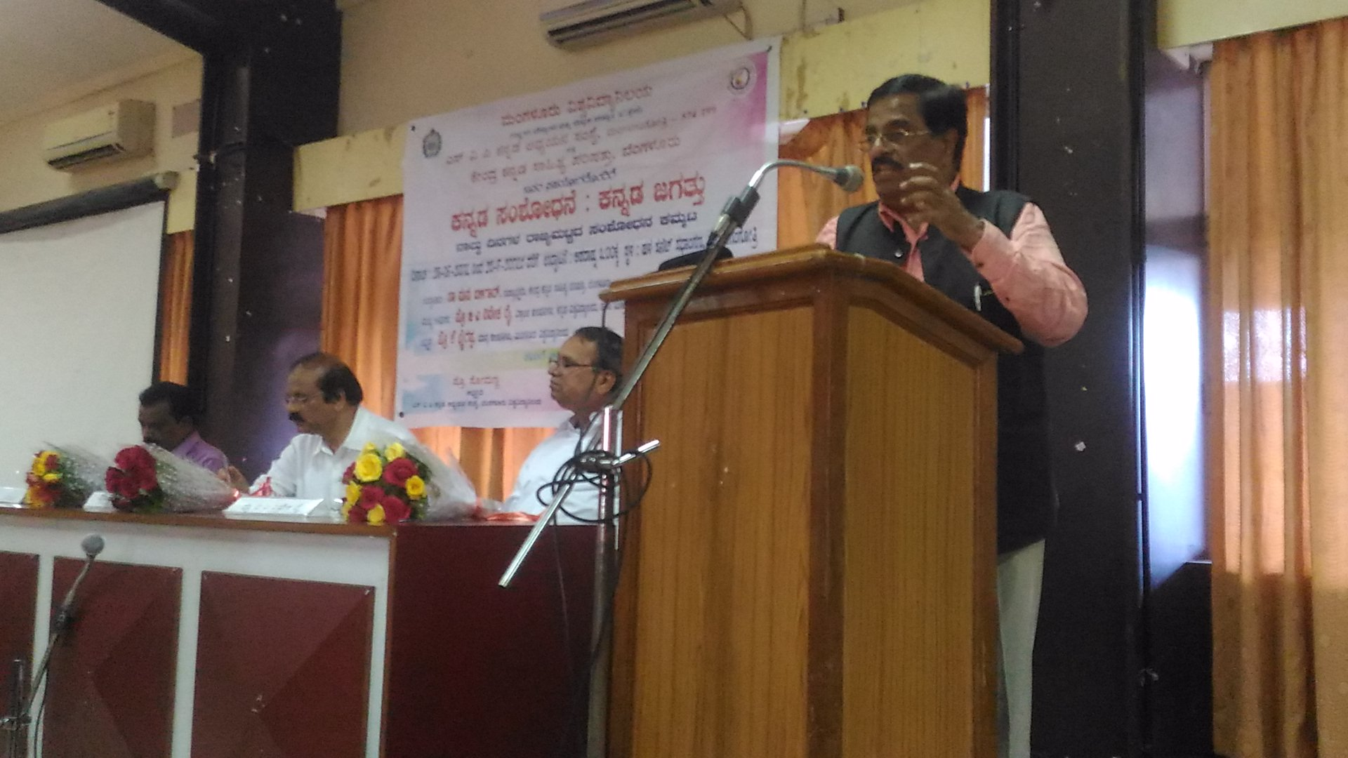 Kannada writer manu baligar